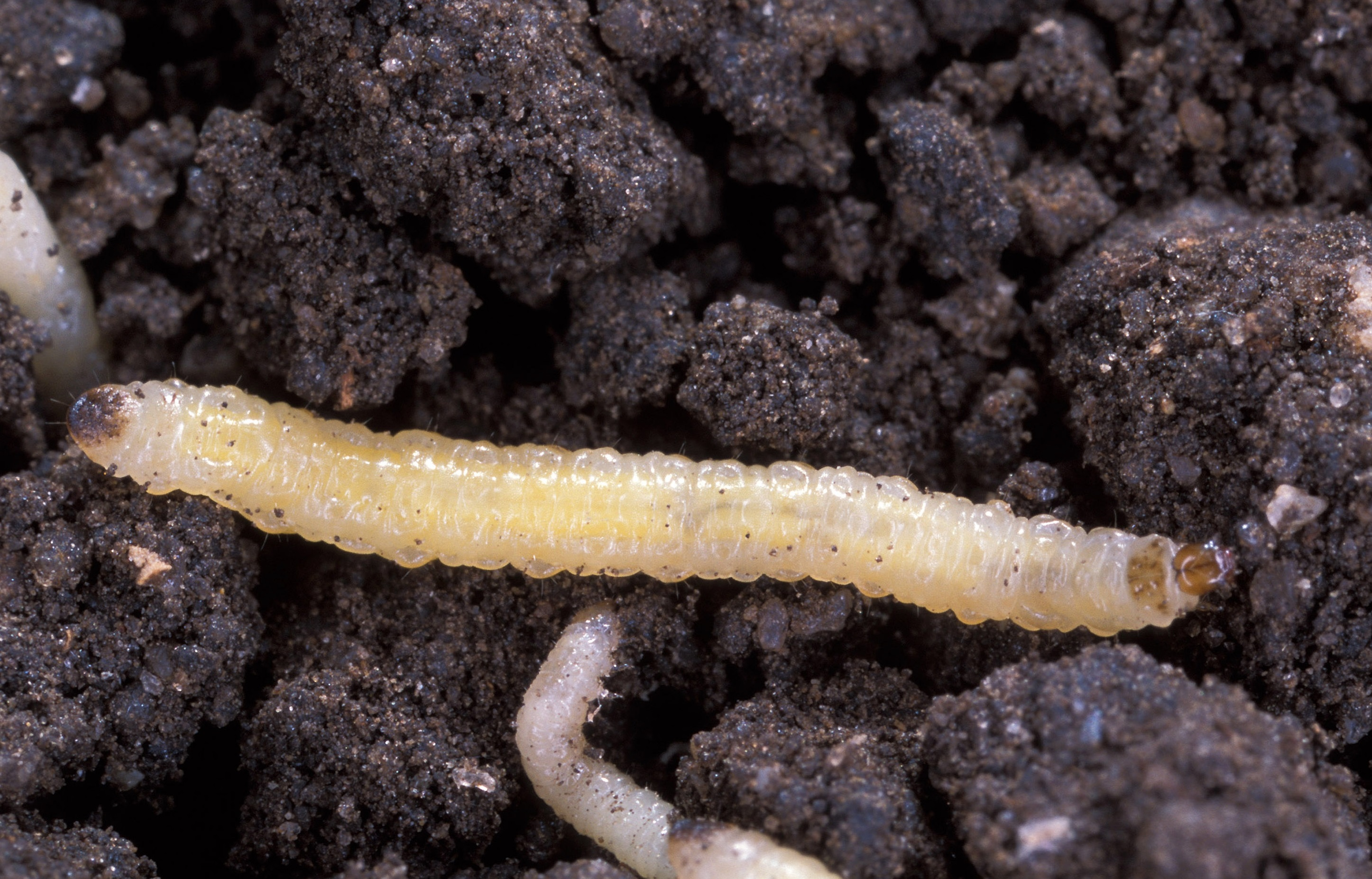 Western corn rootworm (Diabrotica virgifera virgifera) larvae (about 0,6 mm long).